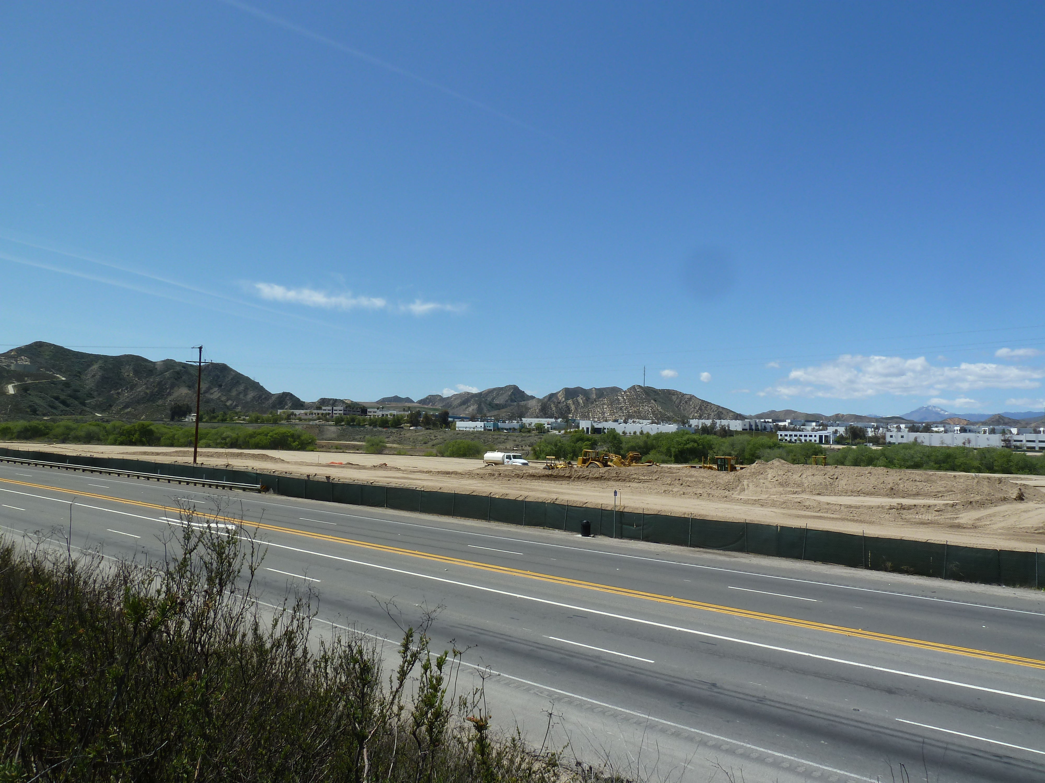 Valencia, CA: Castaic Junction, View N from CA 126, 2012